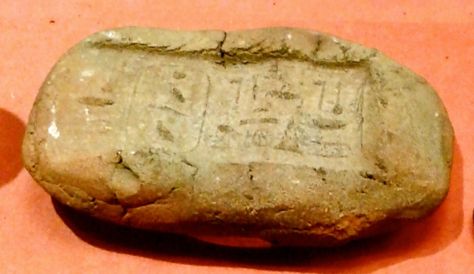 Clay seal inscribed with the name of Khufu from the great pyramid of Gizah. On display at the Louvre.